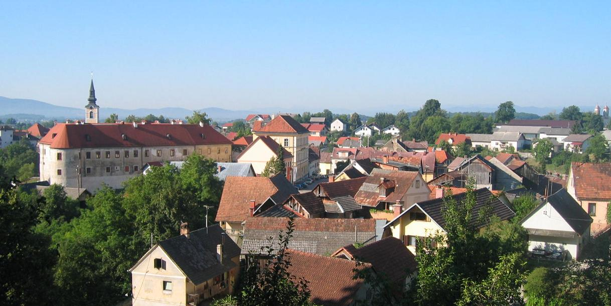 Metlika, town in southern Slovenia photo:Ziga 22:59, 31 October 2006 (UTC)